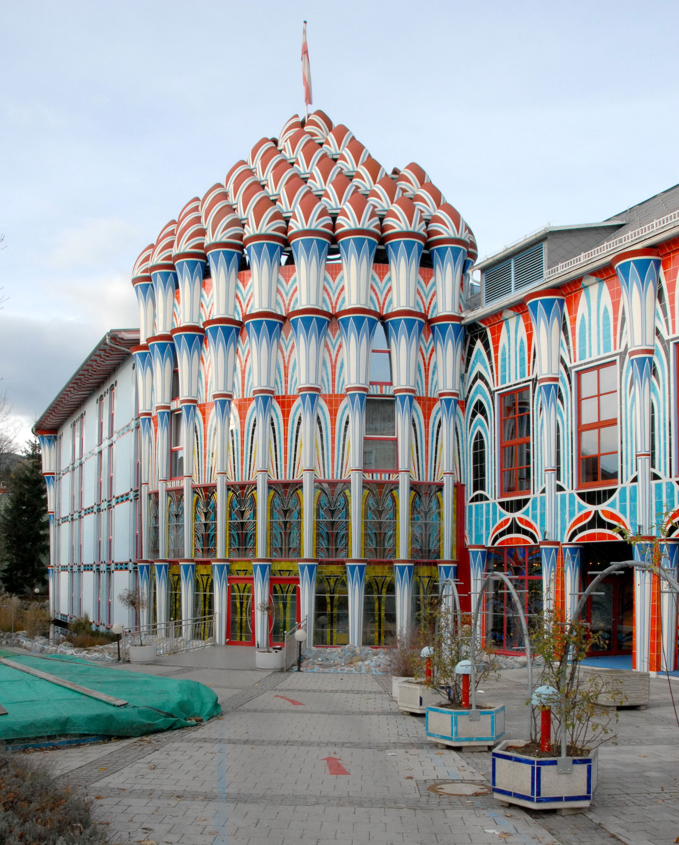 Hotel Fuchspalast, designed by Ernst Fuchs, city of St. Veit an der Glan, district Sankt Veit, Carinthia, Austria, EU